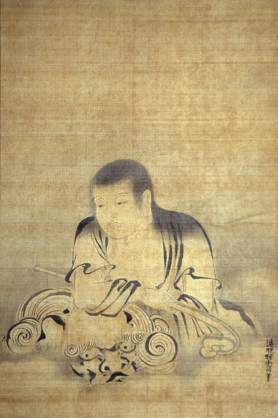 Chigo Monju (Manjusri as a child) by Kano Tanyu, Kanmanji, Nikaho, Akita, Japan